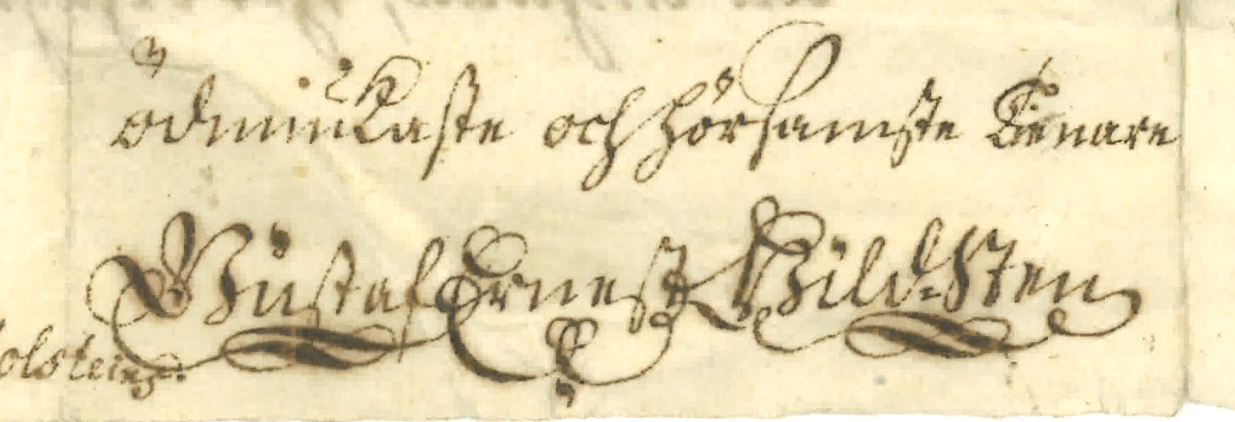 The signature of Swedish adjunct lecturer (later professor of theology at Lund University) Gustaf Ernst von Bildstein on a letter to professor Kilian Stobæus, July 1737.